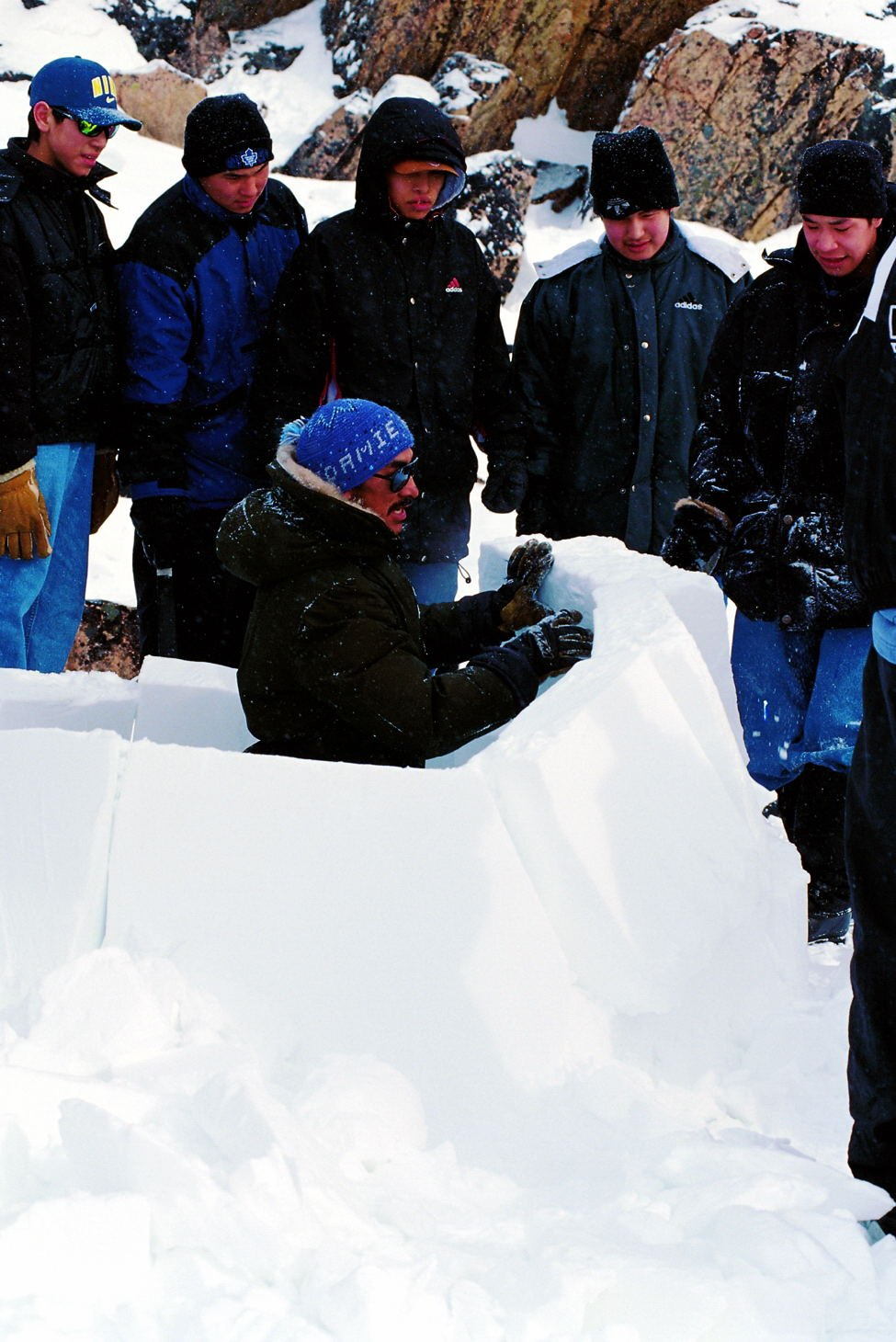 Building an iglu in Cape Dorset - demonstration for pupils (southern region of Baffin Island)